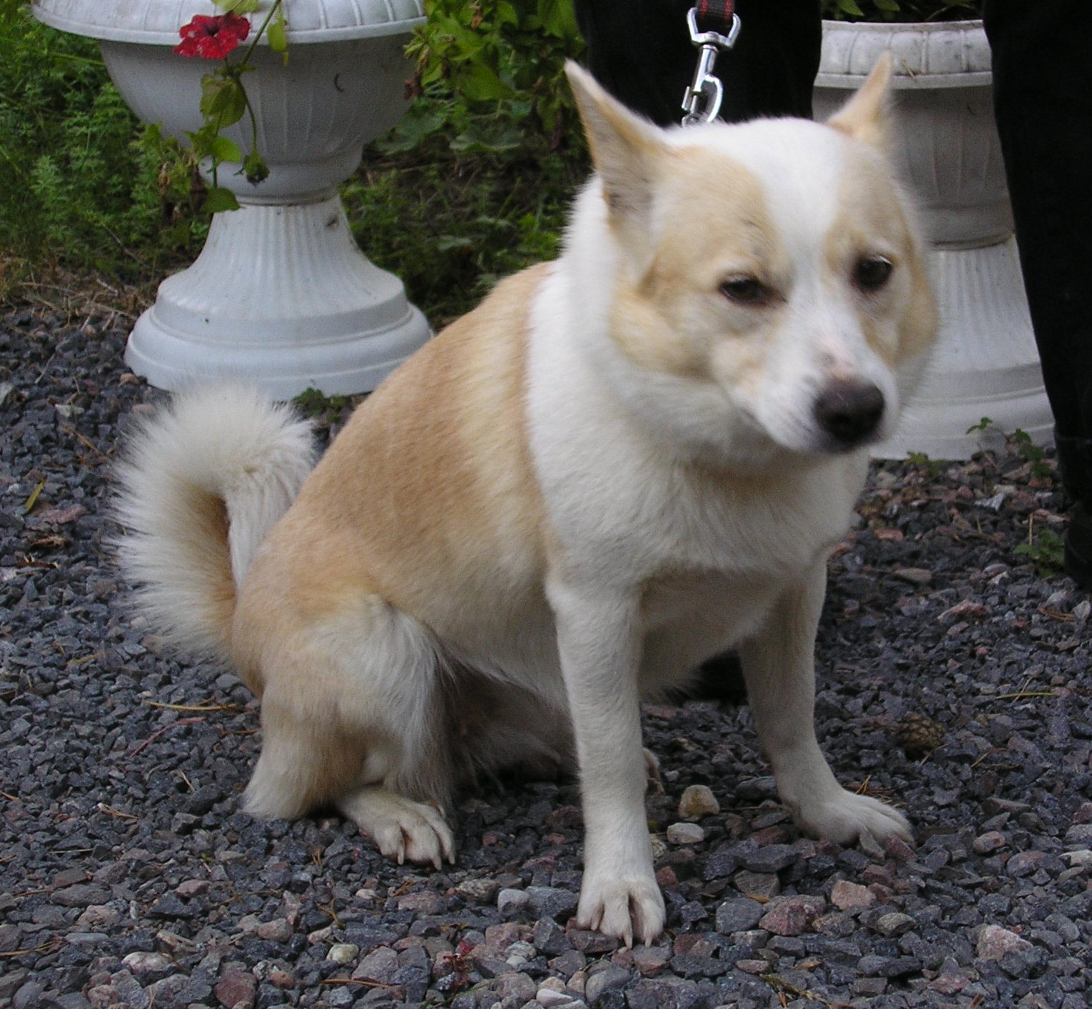 Icelandic sheepdog. Female. Short haired. Creme and white.